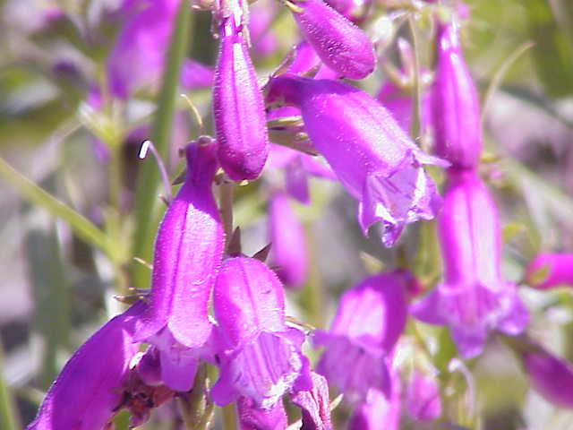 Species: Penstemon campanulatus Family: Plantaginaceae Image No. 1